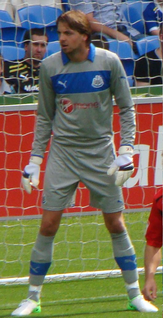 Tim Krul v Cardiff